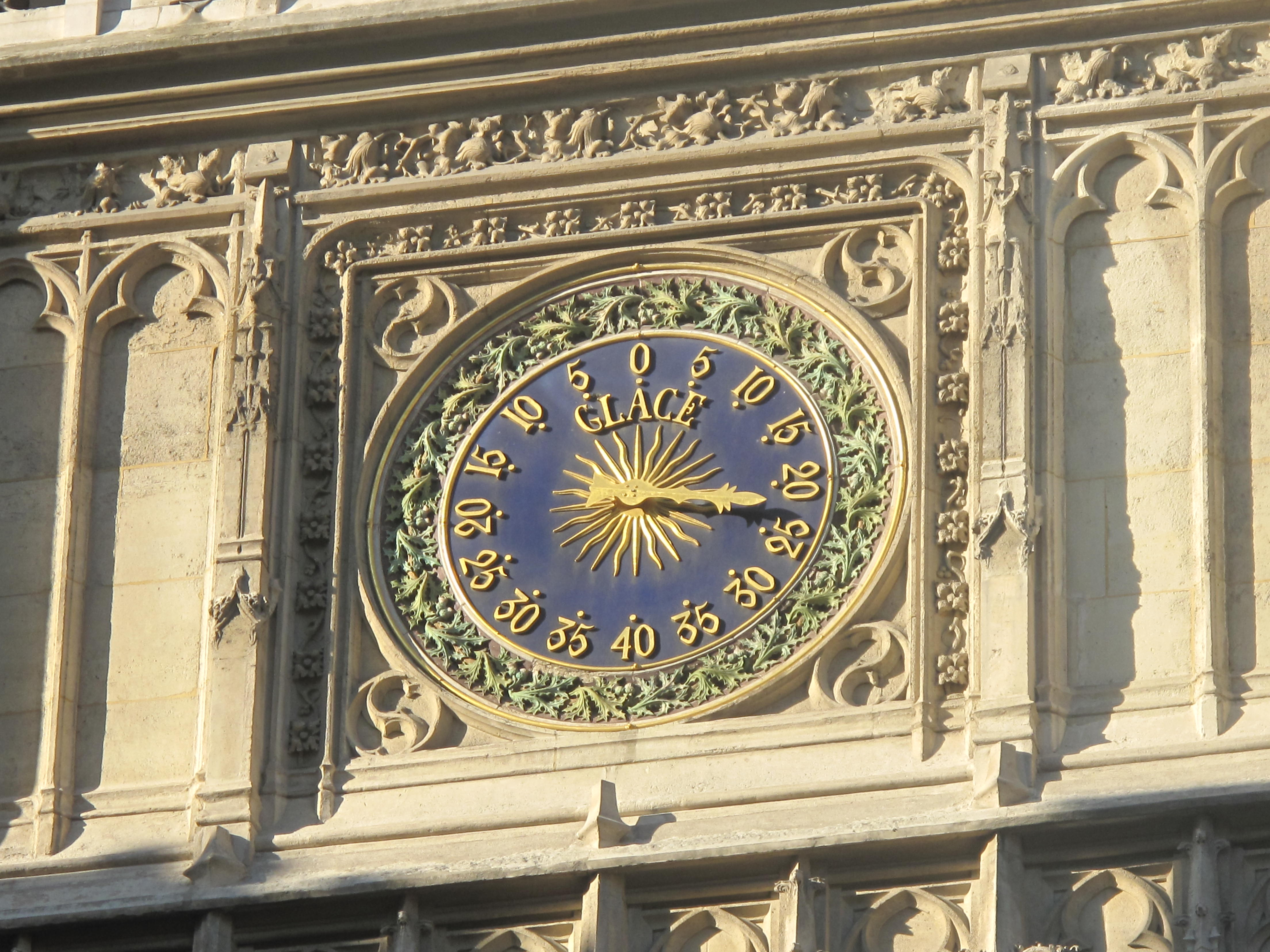 Thermometer on the the steeple of the church Saint-Germain-l'Auxerrois de Paris, Paris 1st arr.